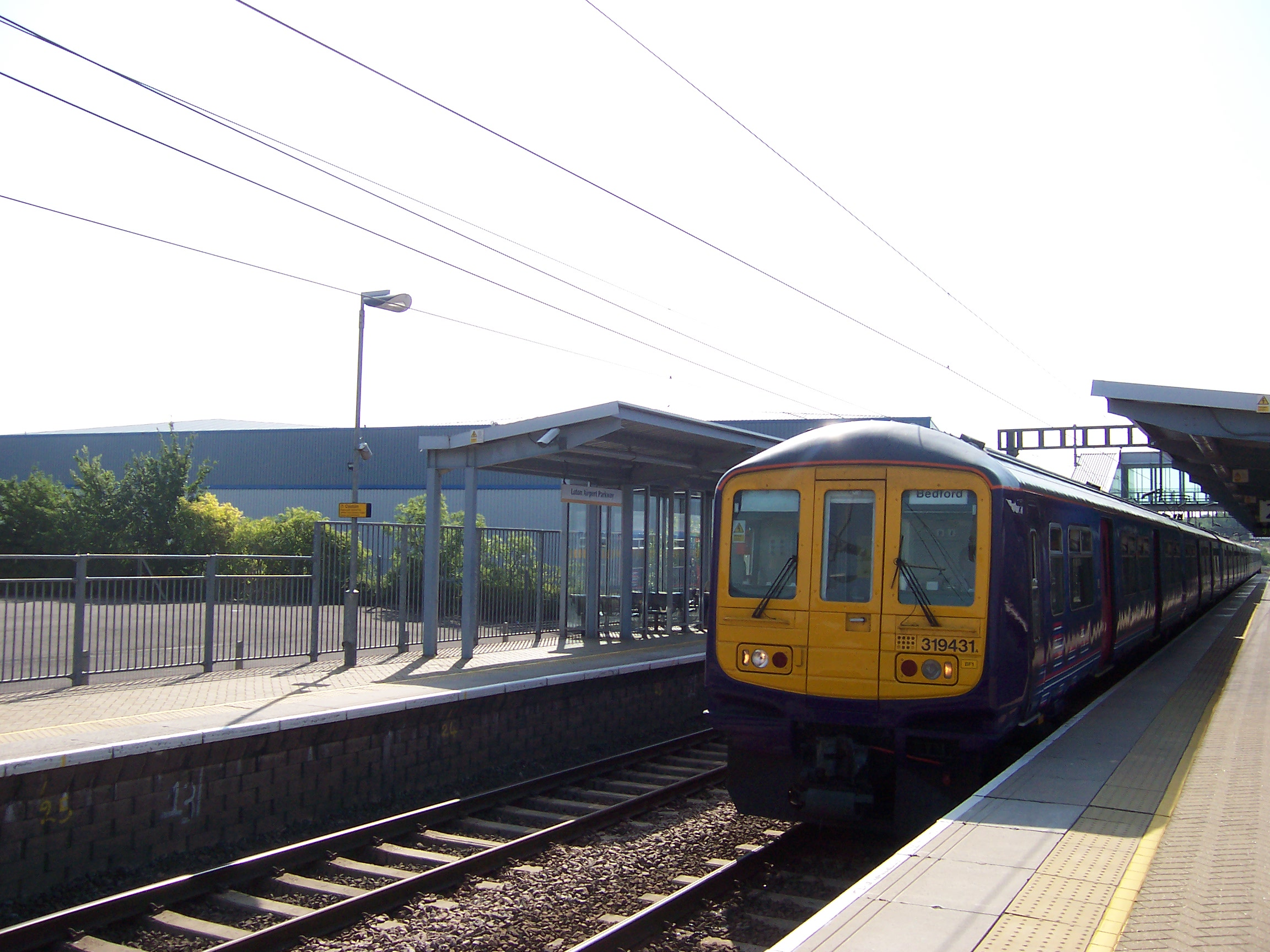 First Capital Connect train 319431 is the first Class 319 train to sport the new livery (picture taken at Luton Airport Parkway).